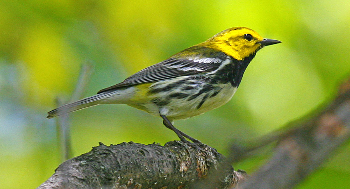 Black-throated Green Warbler (Dendroica virens)